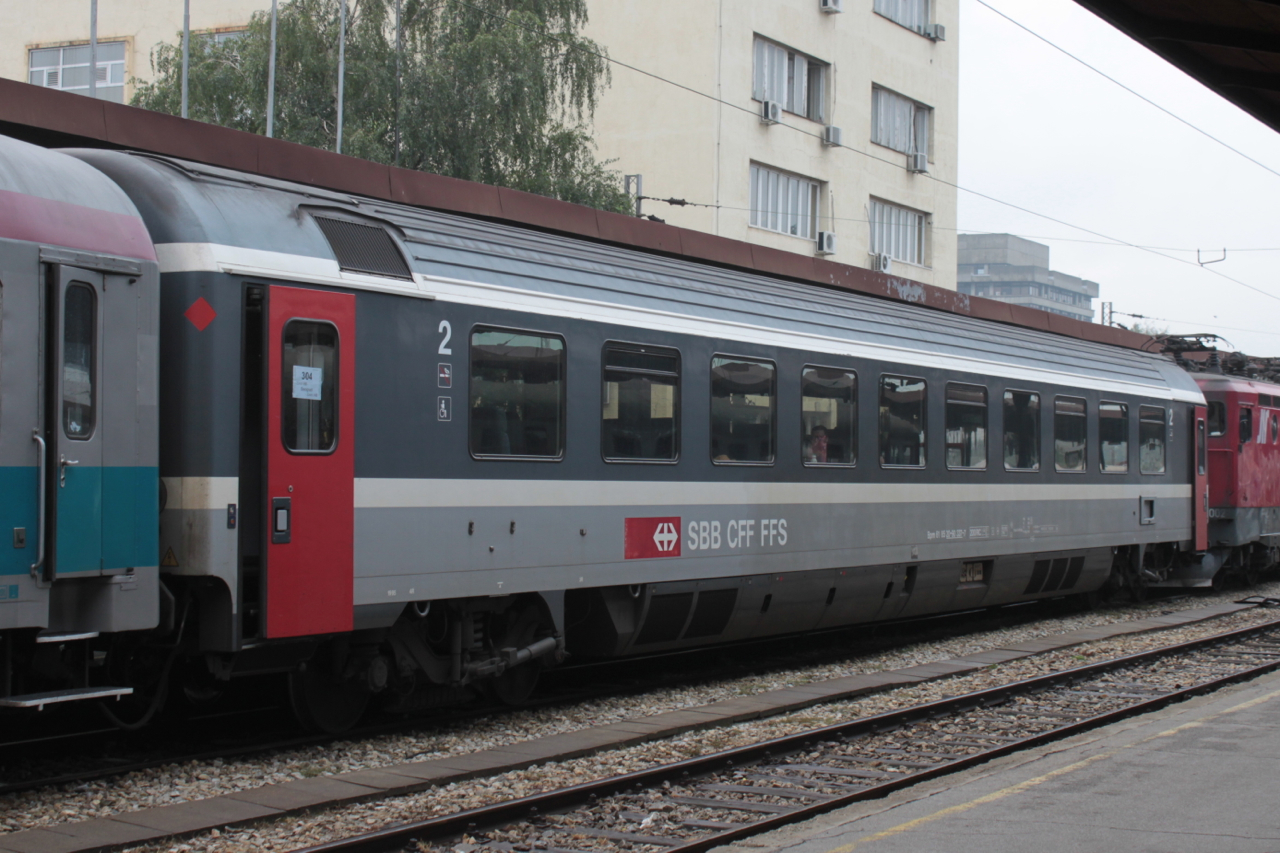 SBB CFF FFS Bpm 61 85 20-90 337-7 in the consist of B 414 "Alpine Pearls" to Schwarzach-St. Veit (as through coach to Zürich HB) at Beograd station.